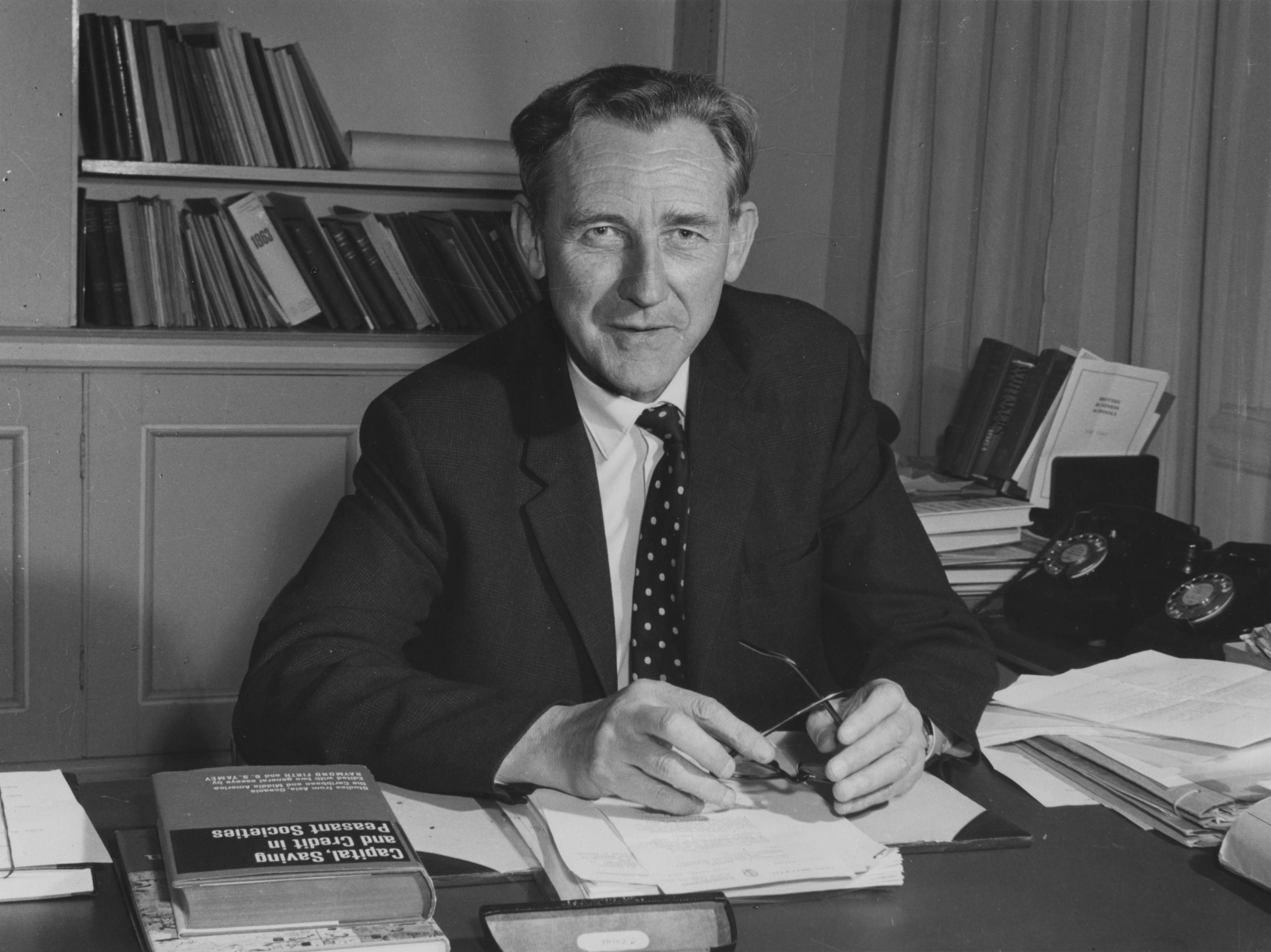 Student at LSE 1919-23 Director of LSE 1957-67 'A former student of the School, BSc Econ (Economic History). He entered the Colonial Office in 1926 and held positions at home and abroad, often as financial advisaer or as a member of a fiscal committee, and as Deputy Under Secretary of State 1947-48. Appointed to the Treasury as Third Secretary in 1948 he served as Head of the UK Treasury and Supply Delegation in Washington and was Chief of the World bank Mission to Ceylonon 1951. Before becoming Director of LSE he was Vice Chancellor of the University of Malaya for four years.' LSE Magazine, November 1983, No66, p.19 IMAGELIBRARY/78 Persistent URL